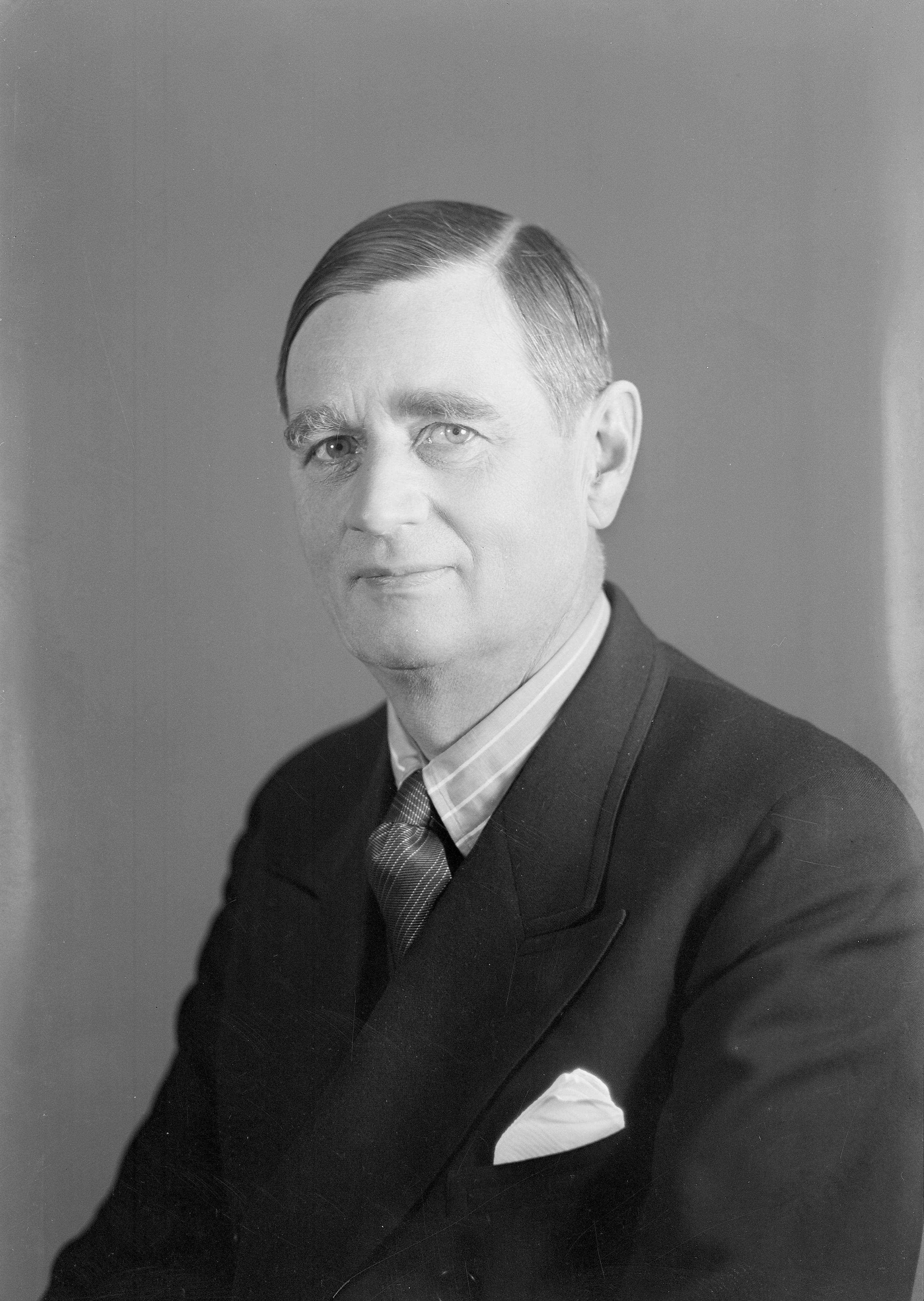 Photograph of the Finnish government minister Henrik Ramsay.